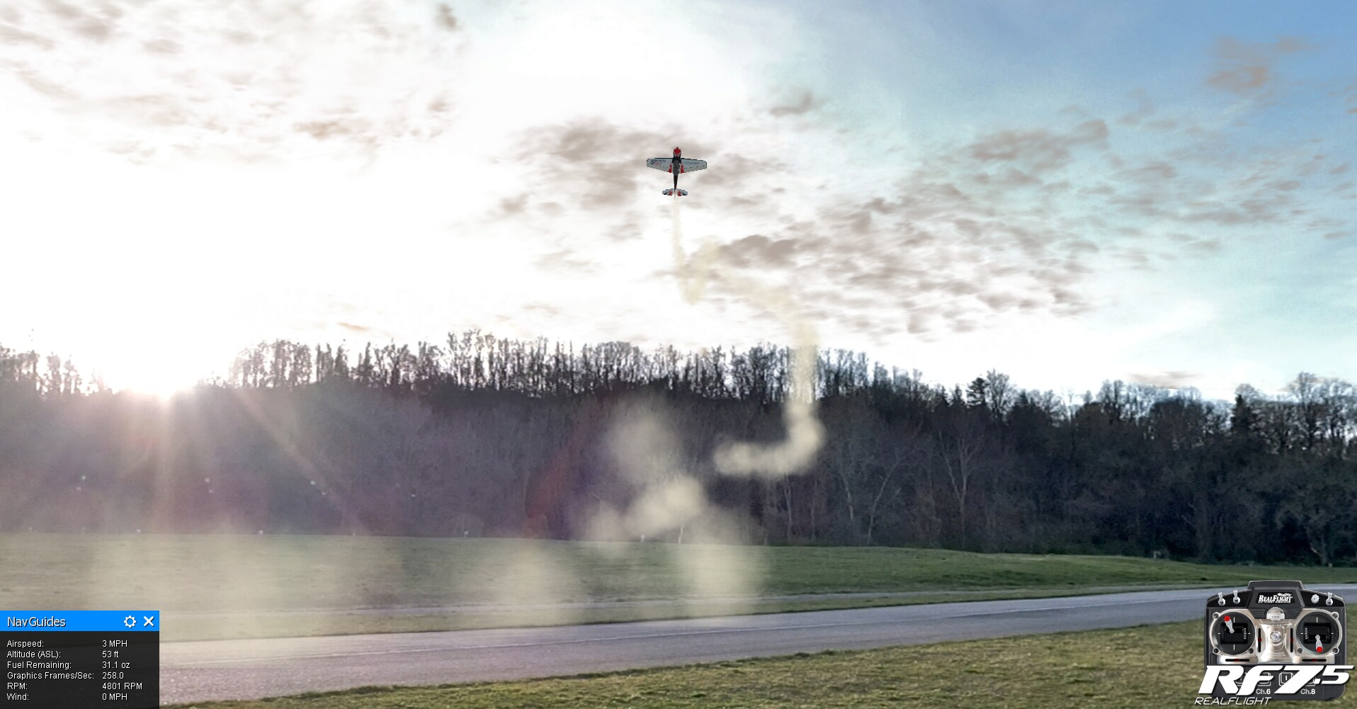 Simulated flying field of the HHAMS Aerodrome created for RealFlight 7.5, an RC flight simulator. This is a screenshot of the field. I created this custom flying field.